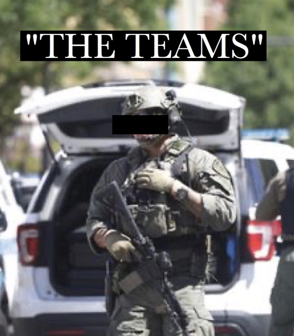 Team member